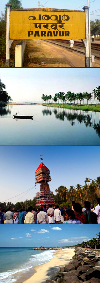 View of Paravur Town